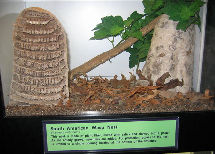 Imaged 2006-11-16 at St. Louis Zoo, St. Louis, MO, USA. More at